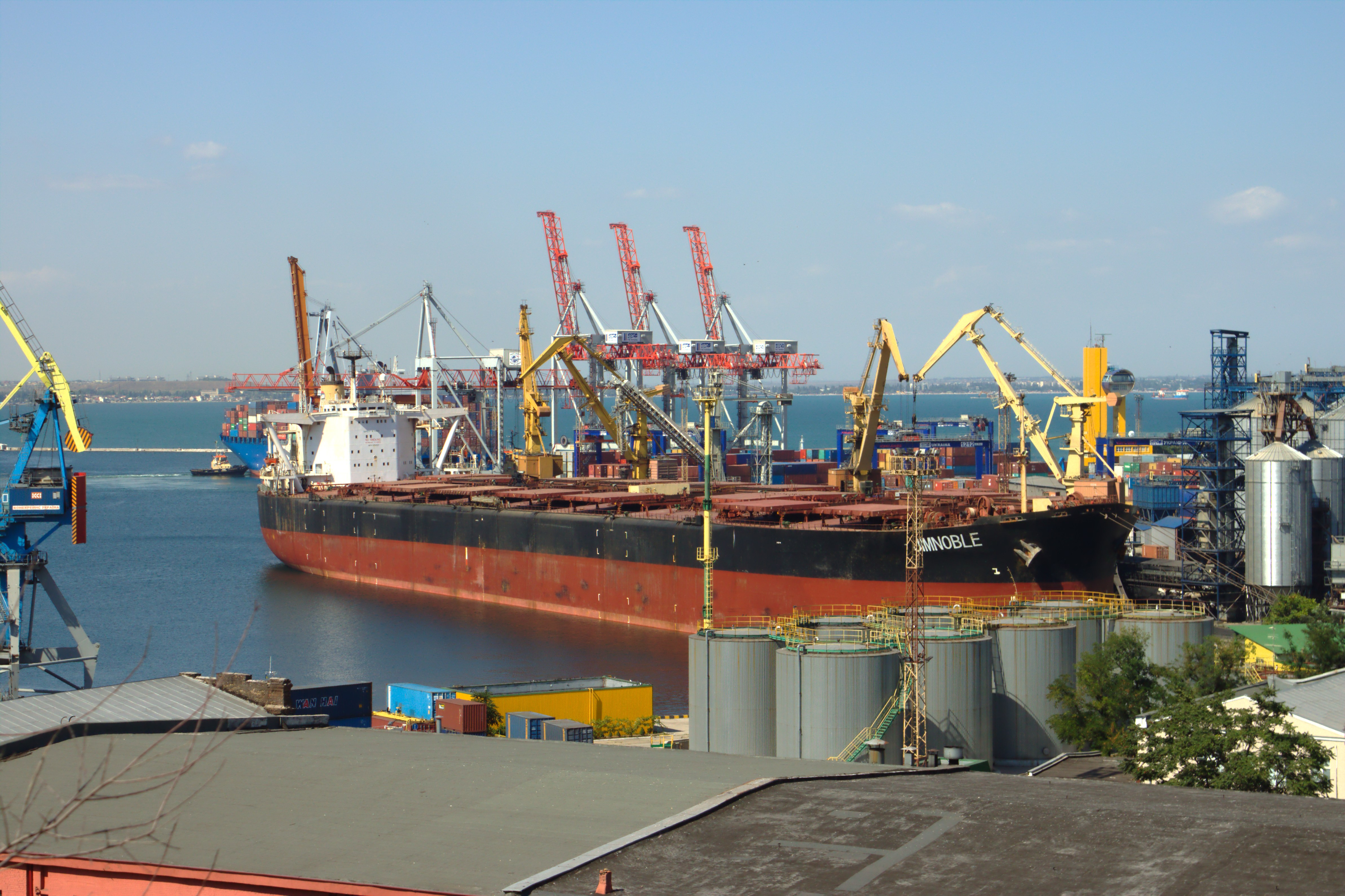 A cargo ship at the Odessa port, Ukraine